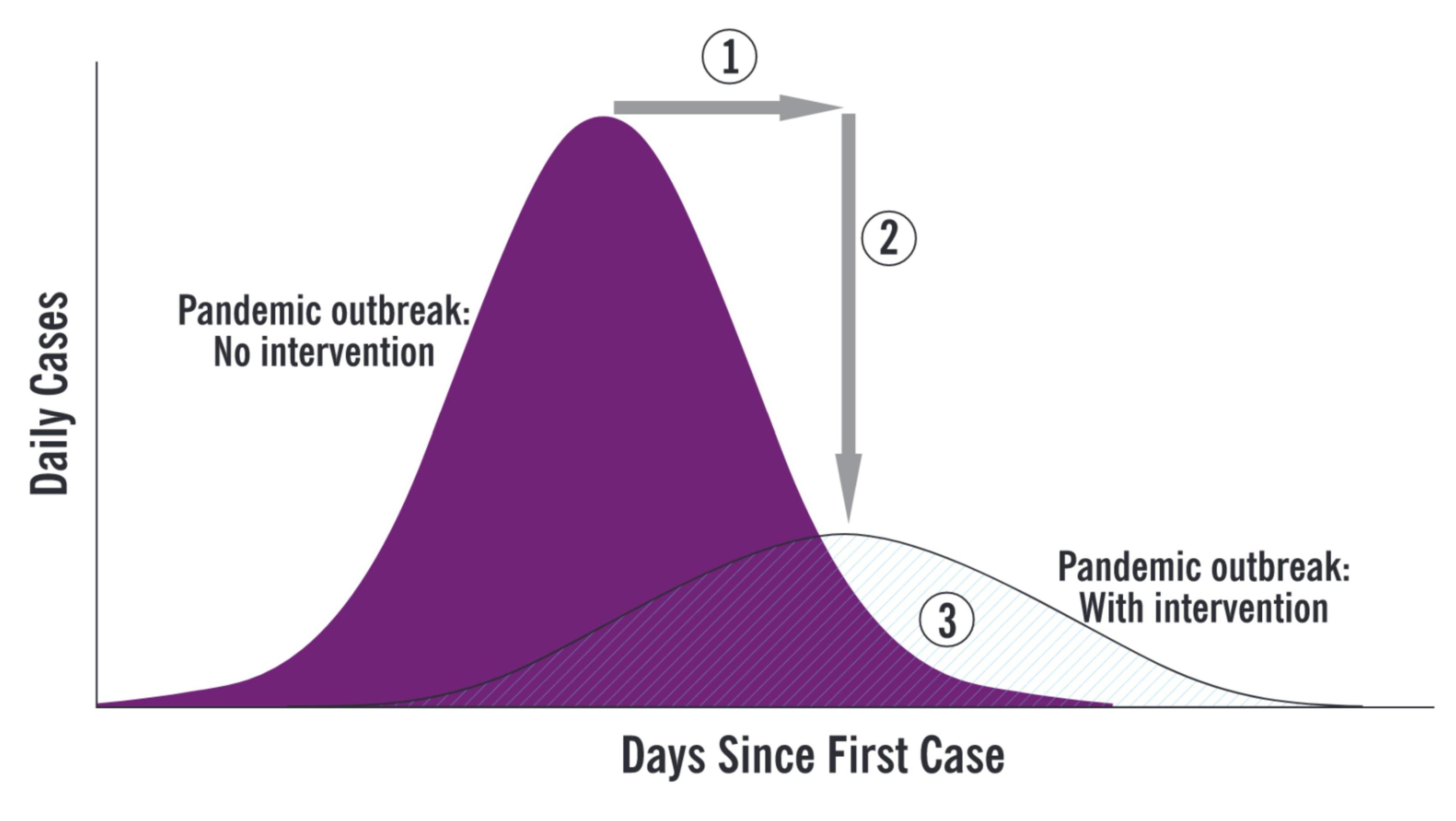 The use of non-pharmaceutial interventions (NPIs) for mitigating a community- wide epidemic has three major goals: 1) delay the exponential growth in incident cases and shift the epidemic curve to the right in order to "buy time" for production and distribution of a well-matched pandemic strain vaccine, 2) decrease the epidemic peak, and 3) reduce the total number of incident cases, thus reducing community morbidity and mortality. Ultimately, reducing the number of persons infected is a primary goal of pandemic planning. NPIs may help reduce influenza transmission by reducing contact between sick and uninfected persons, thereby reducing the number of infected persons. Reducing the number of persons infected will, in turn, lessen the need for healthcare services and minimize the impact of a pandemic on the economy and society. Text and Figure 1 taken from CDC publication "Interim Pre-pandemic Planning Guidance: Community Strategy for Pandemic Influenza Mitigation in the United States—Early, Targeted, Layered Use of Nonpharmaceutical Interventions" (February 2007).